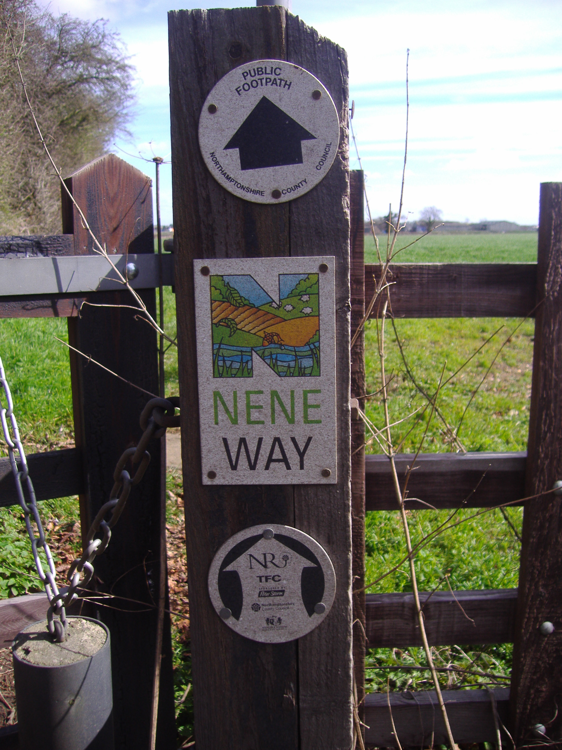 A Digital Photograph of the marker post of the Nene Way taken on the 30th March 2008 by Stavros1 (talk) 13:17, 30 March 2008 (UTC)